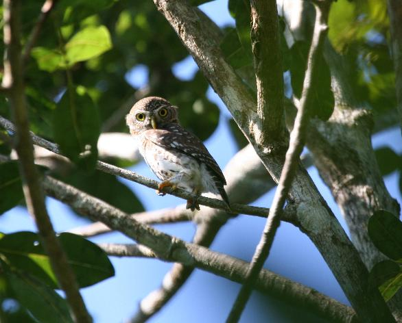 A clip of Image:Cuban_Pygmy-owl_2495239721_.jpg to be used in small size in Glaucidium siju